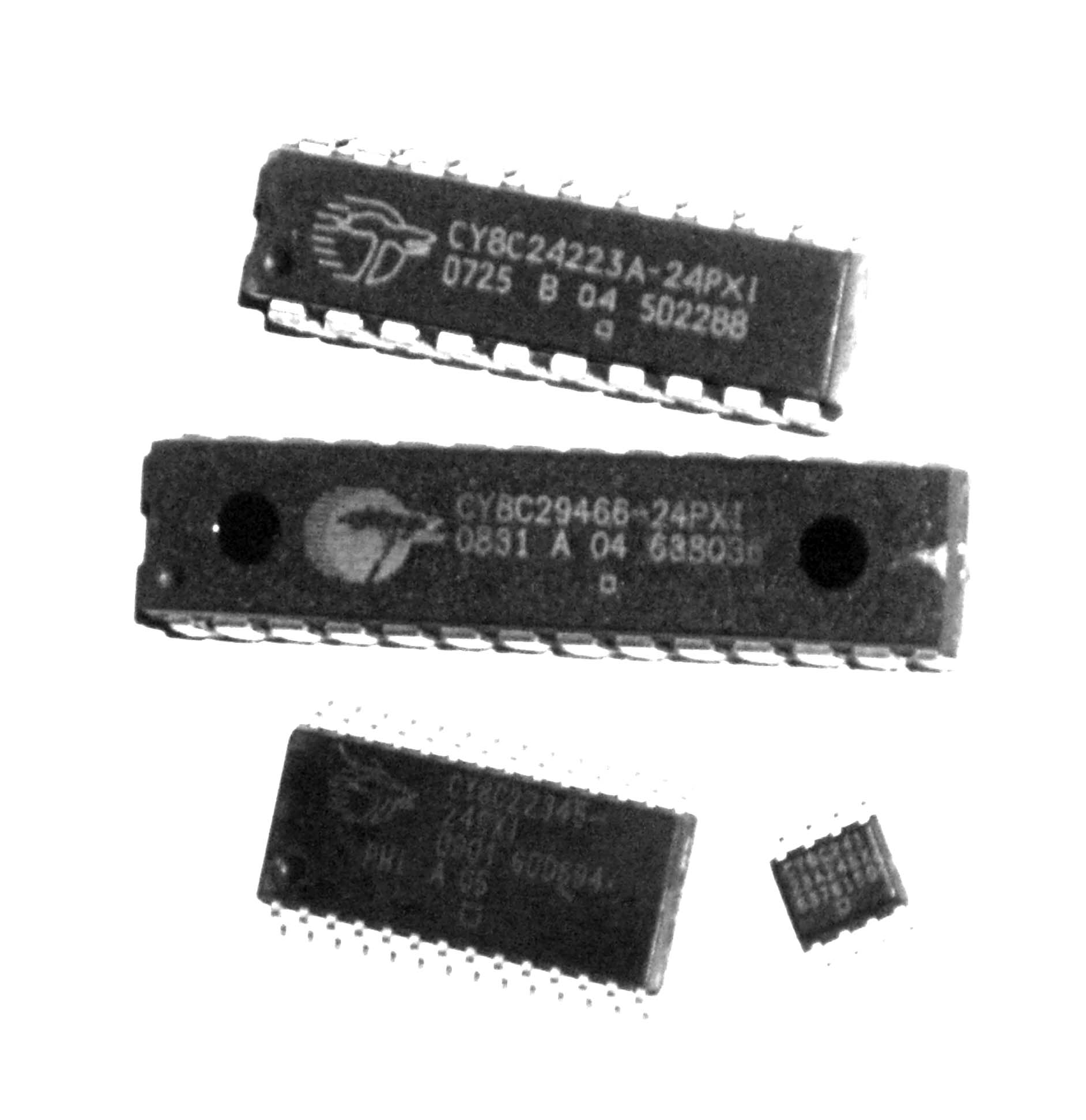 cypress semi. psoc chips